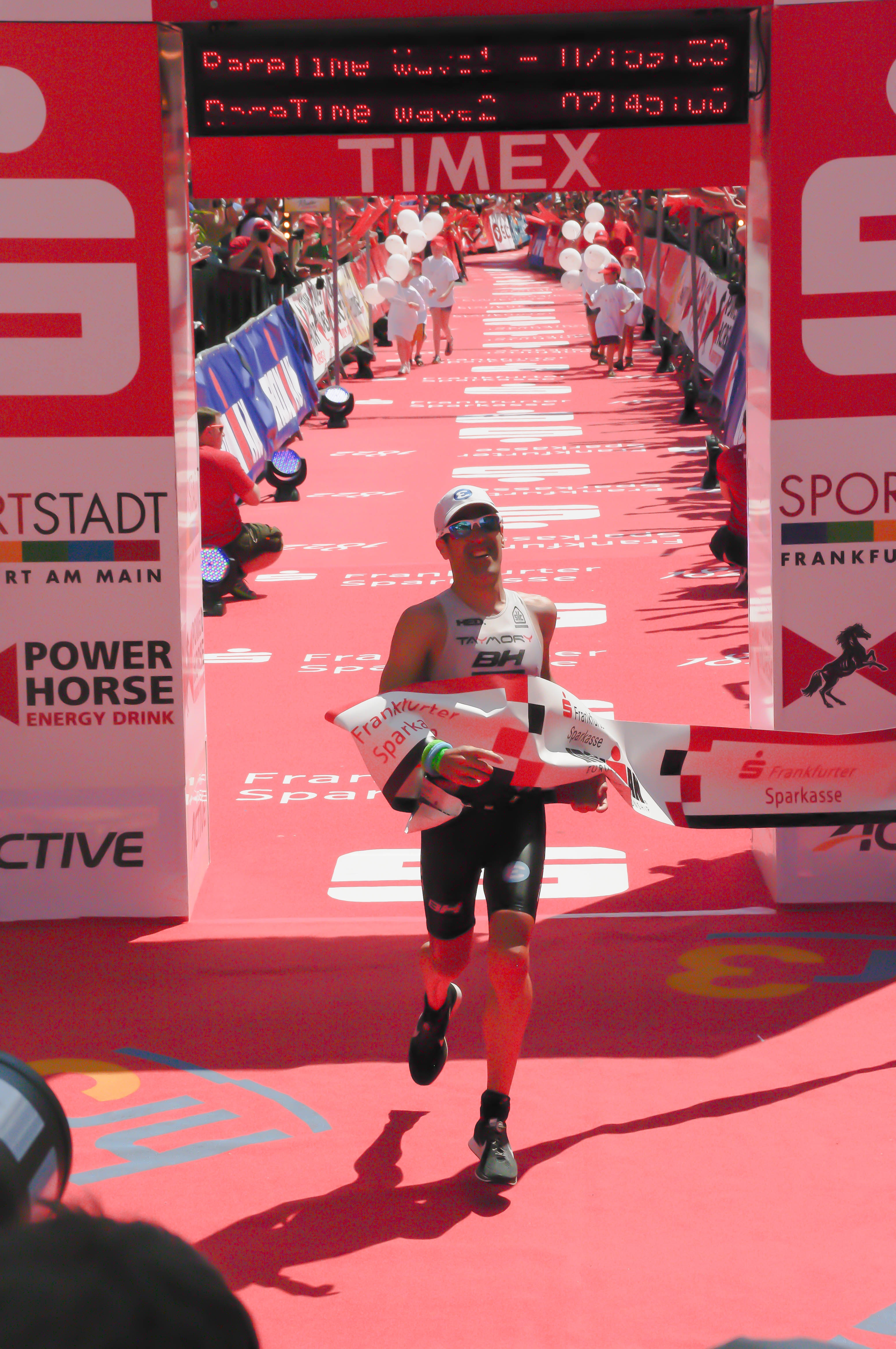 Ironman 2013 Frankfurt